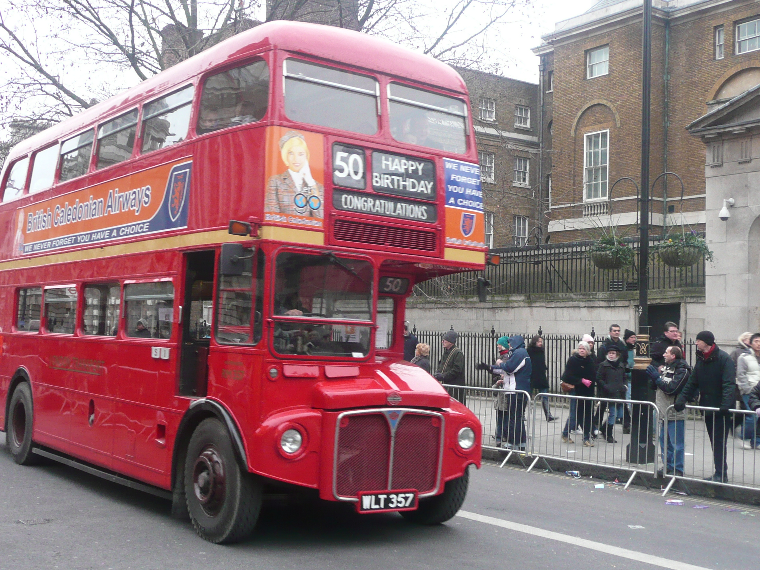 London Routemaster RM357 - London New Year's Parade 2009